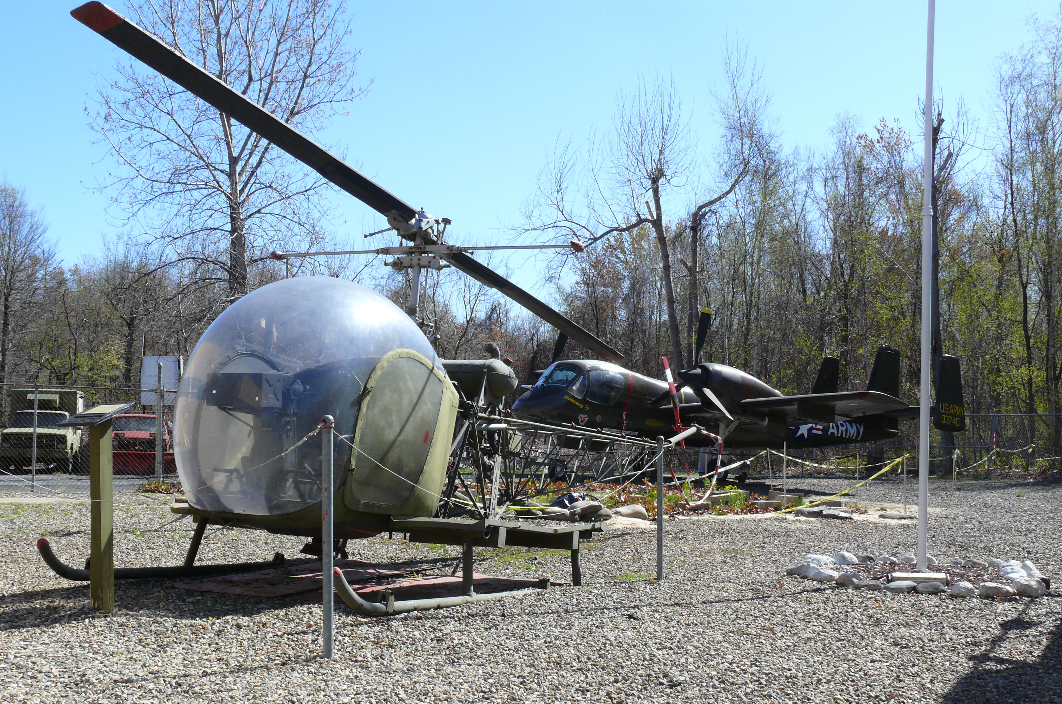 Bell H-13 Sioux in the Aviation Hall of Fame and Museum of New Jersey, a two-bladed, single engine, light helicopter built by Bell Helicopter.